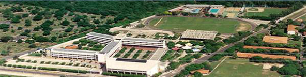 Panorámica aérea del colegio